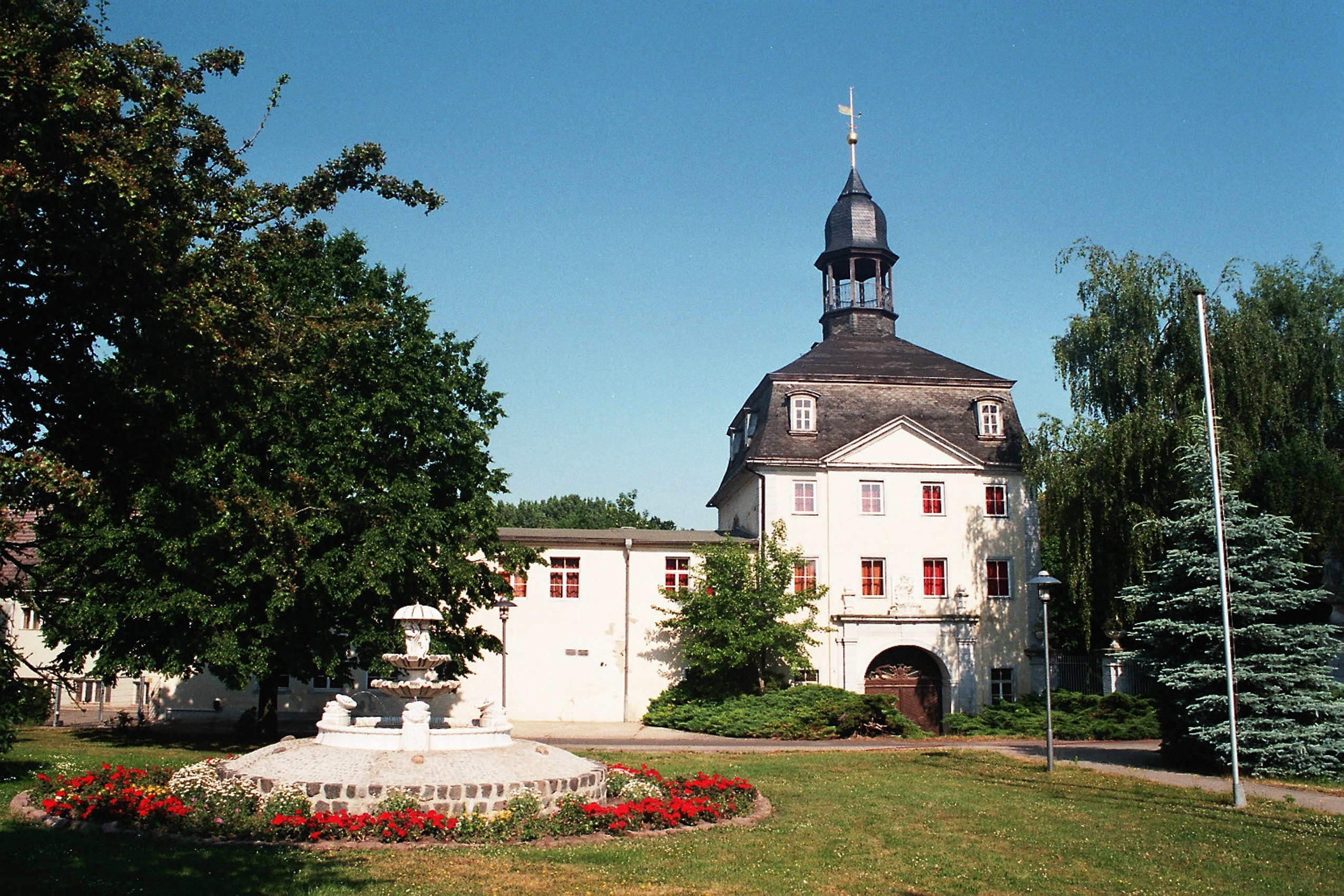 Biendorf (Bernburg), the palace